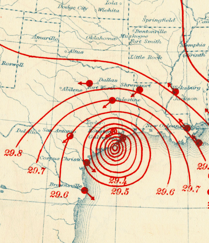 A map of isobars associated with the 1915 Galveston hurricane on the evening of August 16, 1915, roughly six hours before landfall.